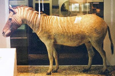 Equus quagga Quagga specimen on display at Natural History Museum, London.